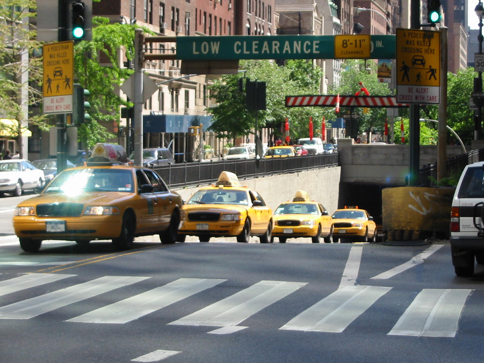 The Murray Hill Tunnel or Park Avenue Tunnel south of Grand Central Terminal in New York City, originally built for the New York and Harlem Railroad.